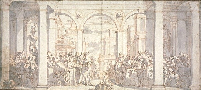 Sketch by or after Paolo Veronese of scene of Jesus at Pharisee's house, confounding the doctors